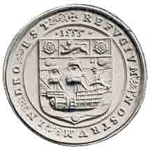 Seal of the Muscovy Company (alias Russia Company, Russia Trading Company). An English Chartered Company founded in 1555, defunct in 1917. Seal in collection of University Library of Tromsø. Arms: Barry wavy of six argent and azure, over all a ship of three masts in full sail proper, sails, pennants, and ensigns of the first, each charged with a cross gules all between three bezants, a chief or, on a pale between two roses gules seeded or, barbed vert, a lion passant guardant of the fifth (Per Fox-Davies, The Book of Public Arms)[1]. Motto: Refugium Nostrum in Deo Est (Our Refuge is in God)